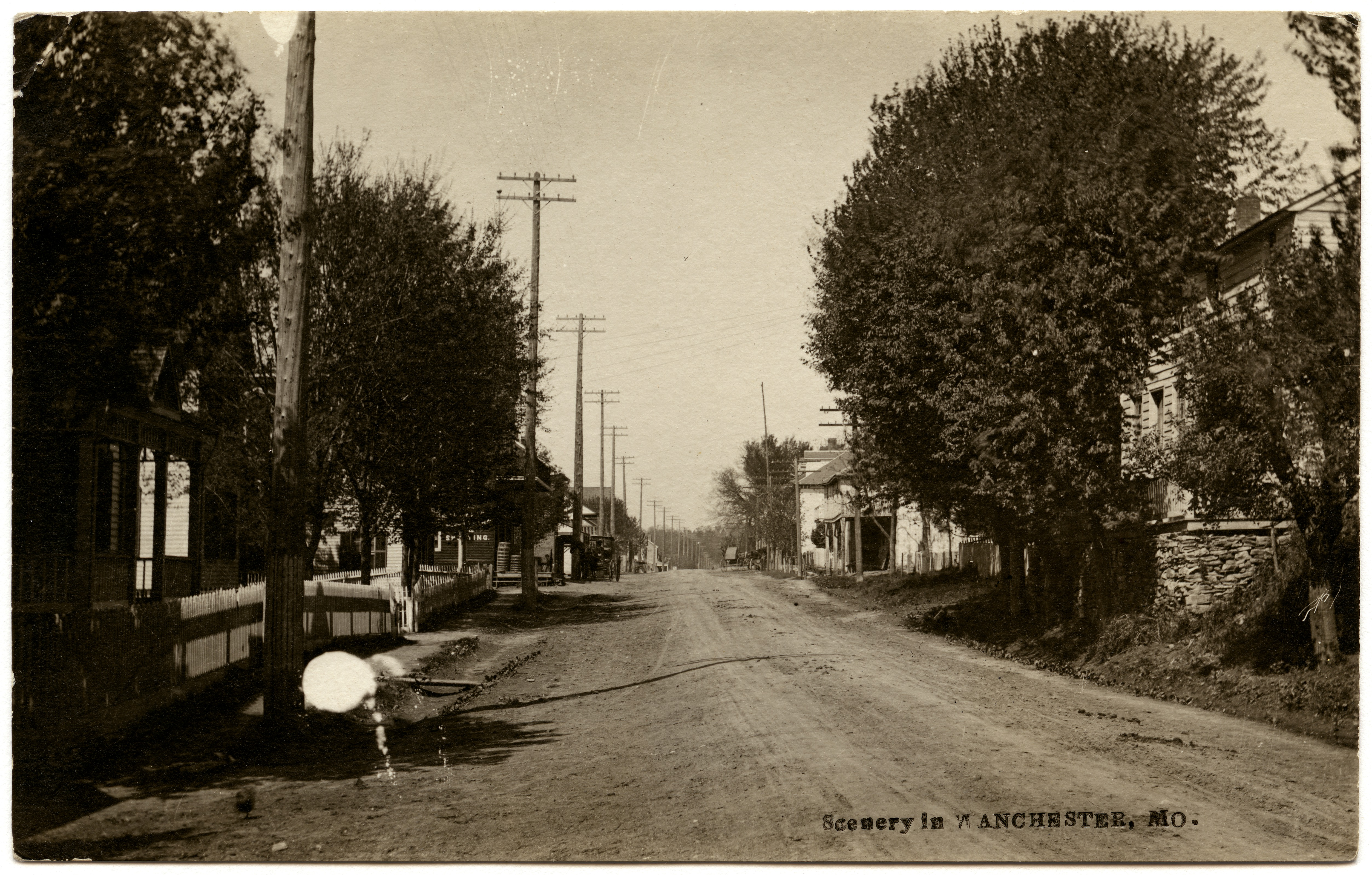 Horizontal, black and white postcard showing a photographic view looking down a dirt road in Manchester, Missouri. Houses can be glimpsed through trees on both sides of the road. Several of the yards are bordered by picket fences, and utility poles line the street on the left. A caption along the lower edge reads: "Scenery in MANCHESTER, MO." On the back of the postcard, there is a note written in pencil from M. McLahill to Mrs. Thomas Toy or Joy discussing M's stay in Manchester. The postcard was postmarked in Chesterfield, Missouri on August 12, 1911. Title: "Scenery in Manchester, Mo."